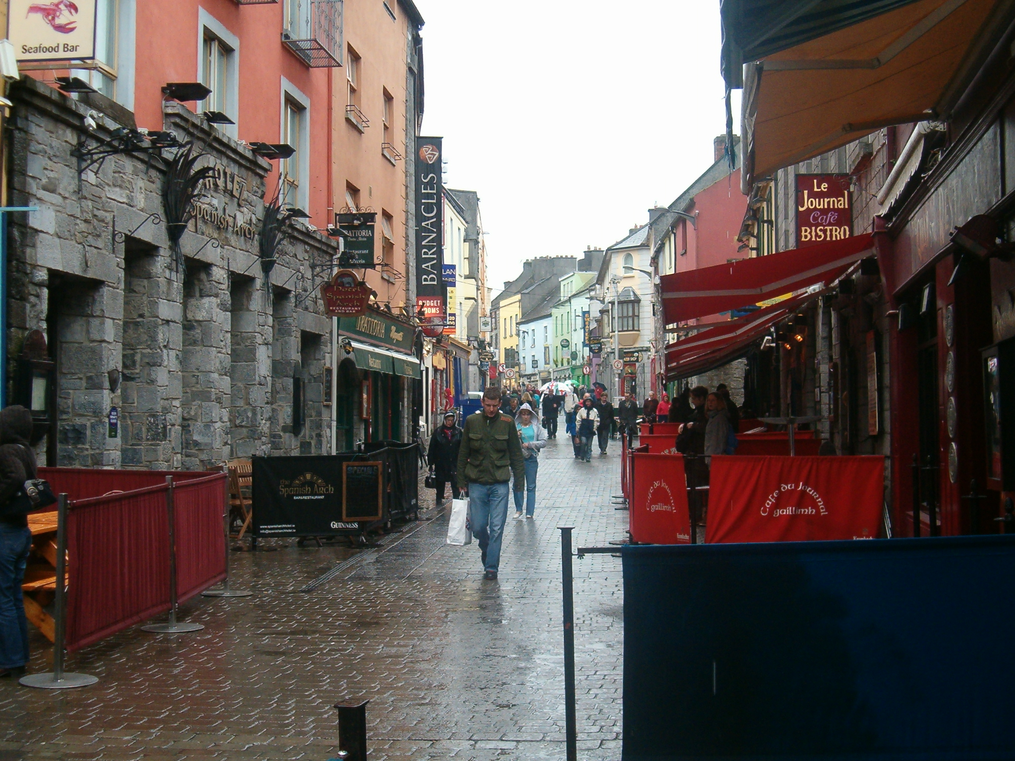 Quay Street, Galway, Ireland.